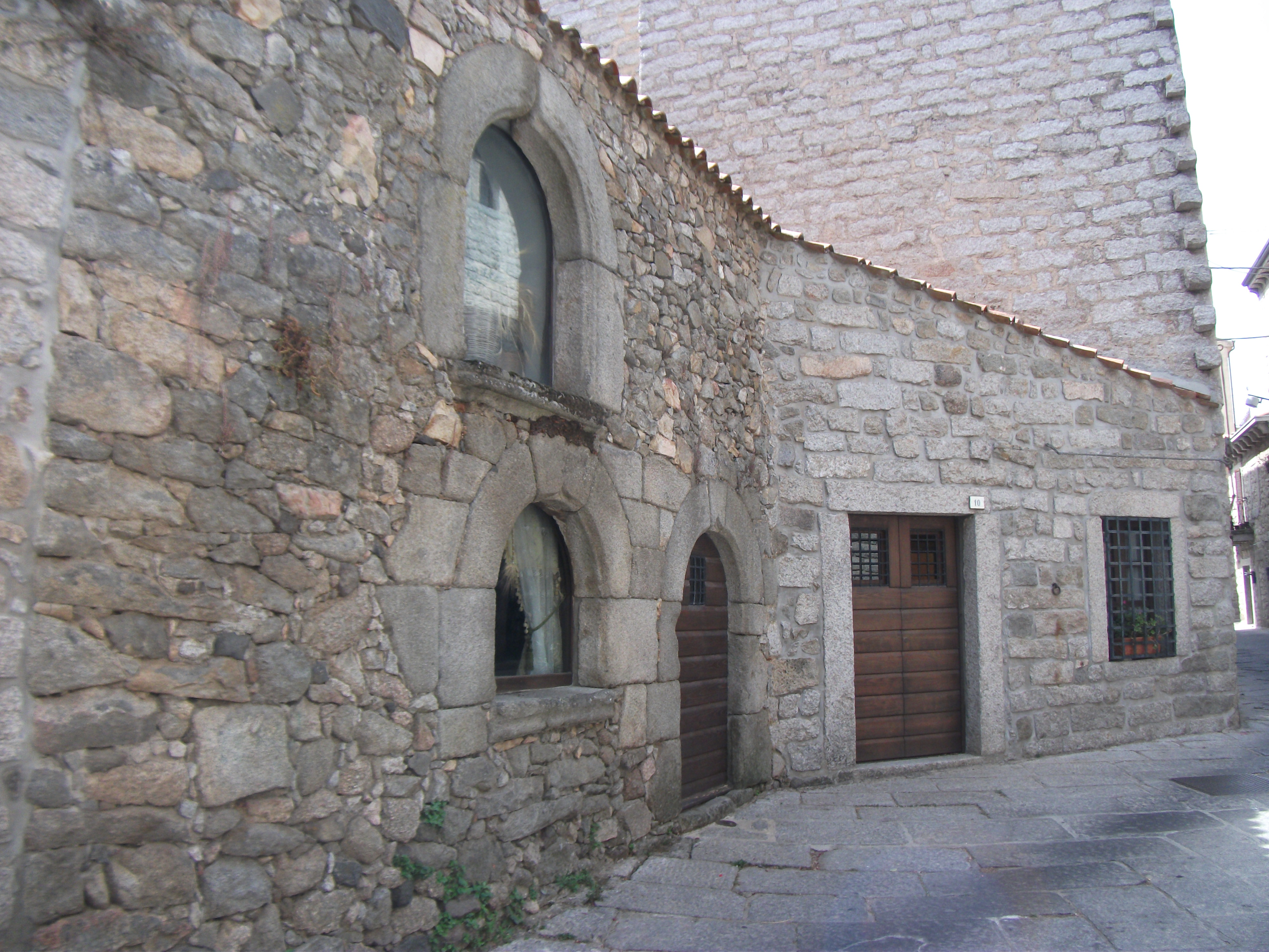 Tempio Pausania, House of Nino di Gallura